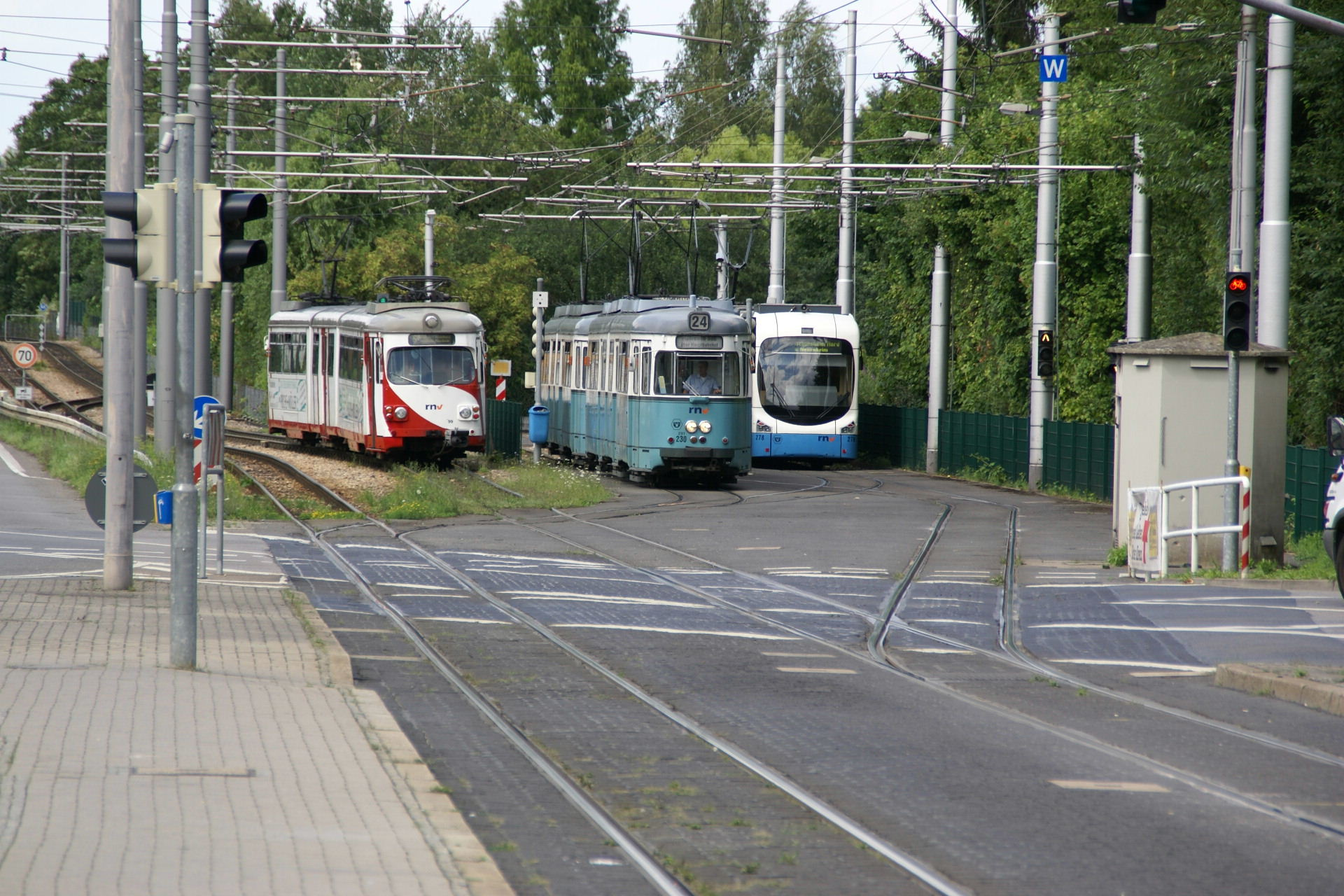 Trams of the public transport company Rhein-Neckar-Verkehr GmbH (RNV) at Burgstrasse/Handschuhsheim Nord in Handschuhsheim, Heidelberg, Germany